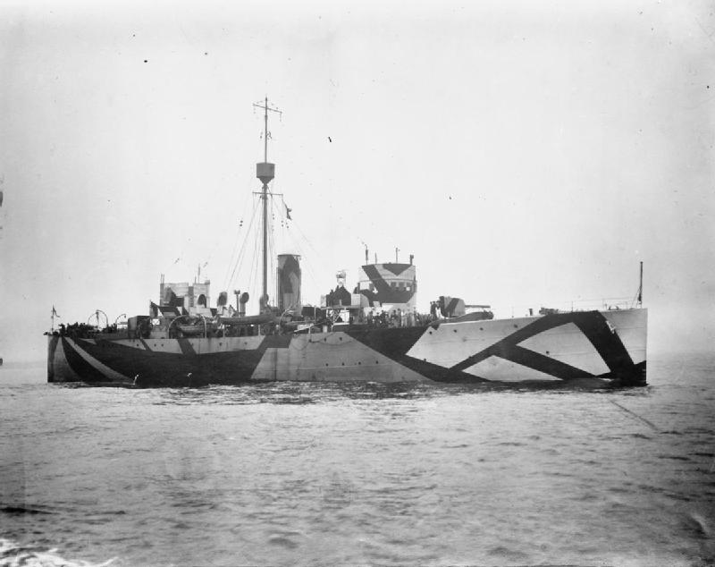 Photograph of British 24 class minesweeping sloop HMS Sir Bevis.